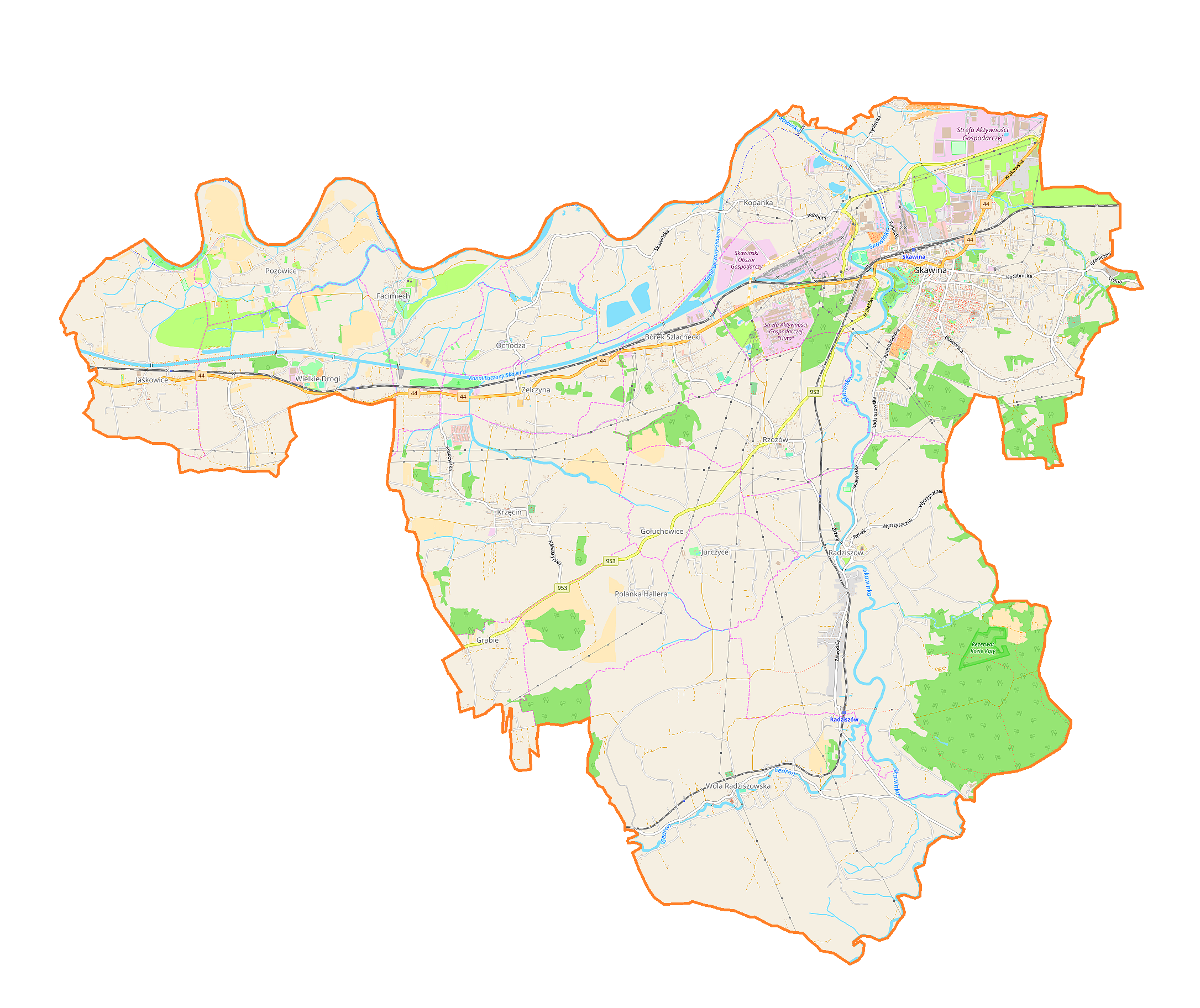 Location map